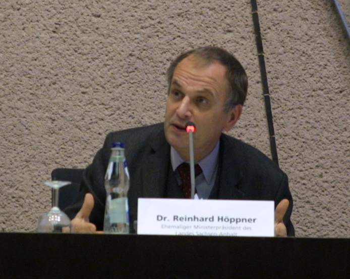 Reinhard Höppner, Minister-President of Saxony-Anhalt (1994-2002) Image taken on a commemorative event because of the 25th anniversary of the Volkszählungsurteil (see Informational self-determination)